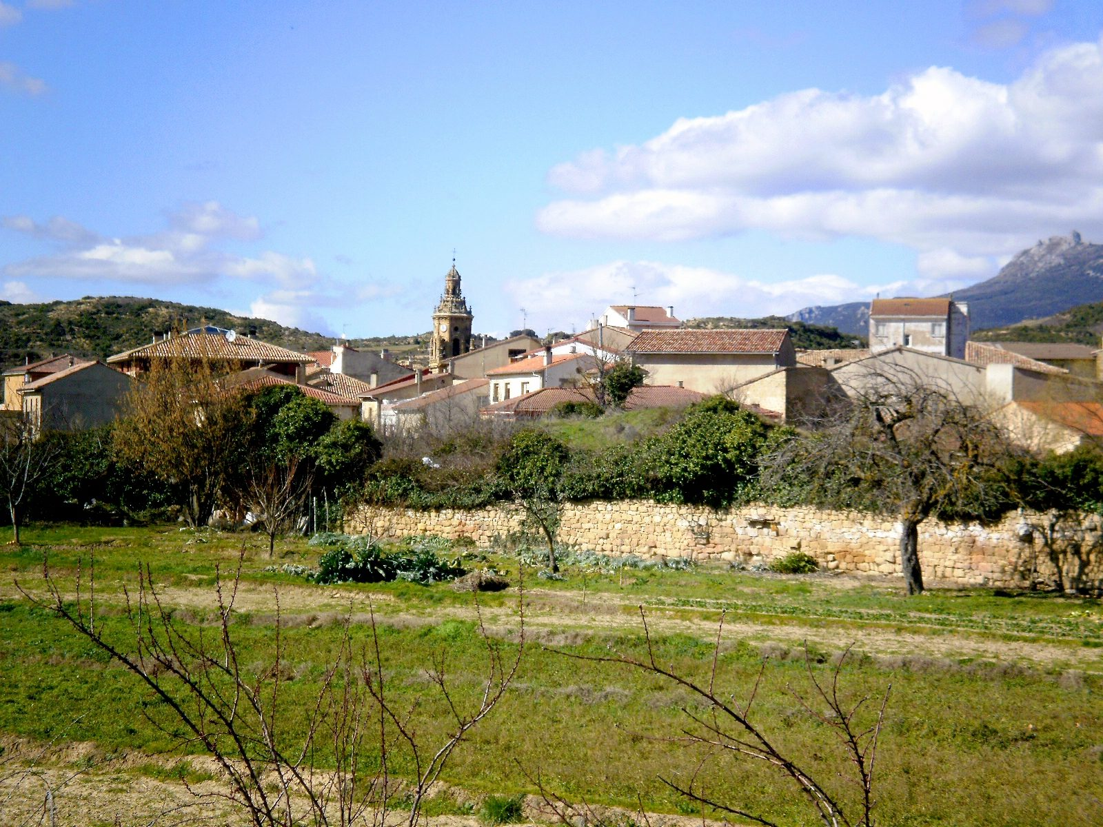 Vista de Ábalos (La Rioja, España)